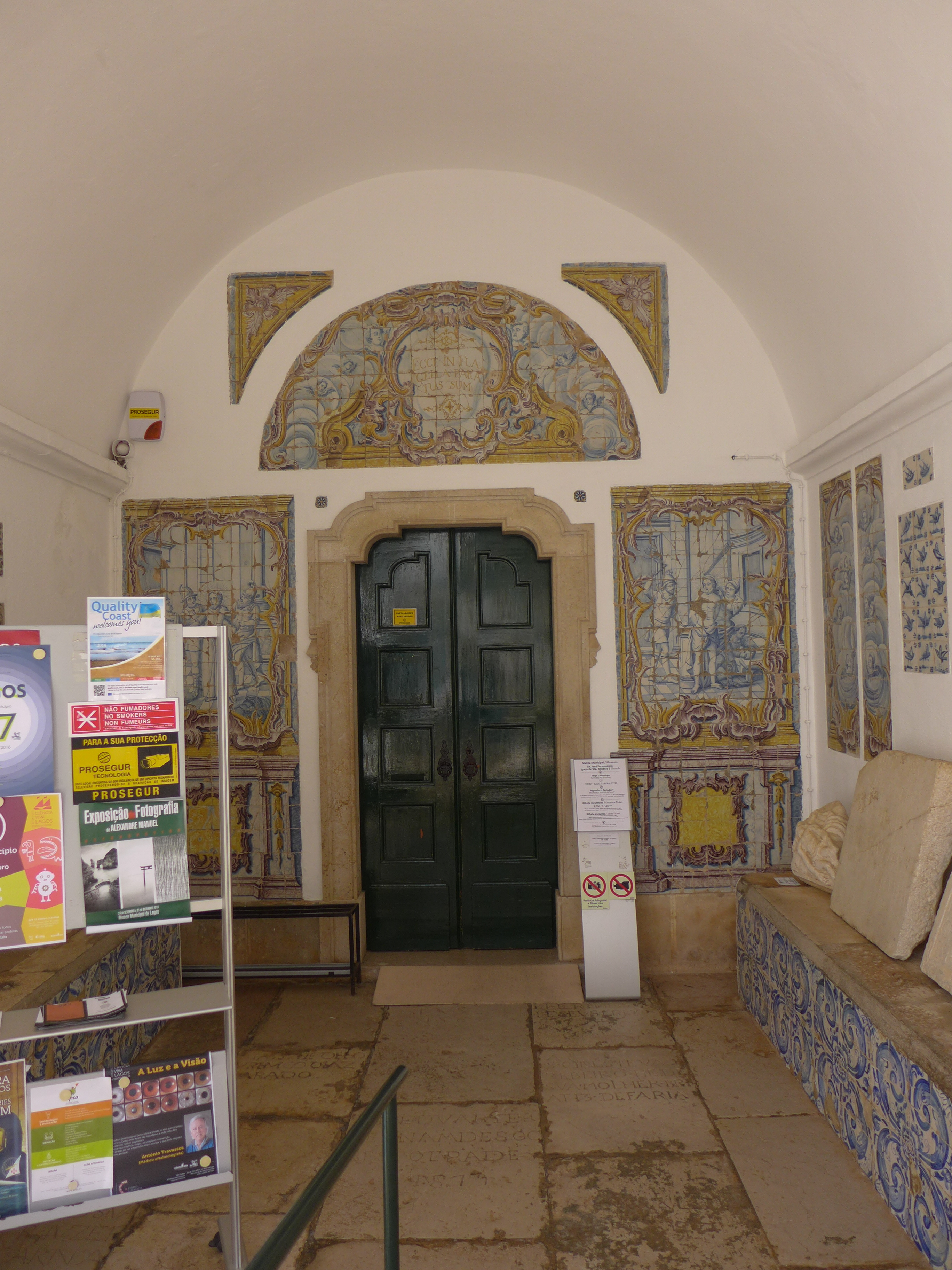 Museu Regional de Lagos, Lagos, Portugal October 2016